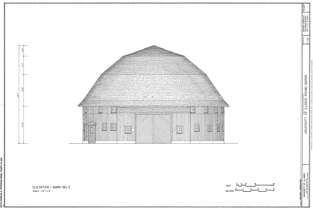 Scale architectural drawing of one of the three round barns located in the University of Illinois Experimental Dairy Farm Historic District.